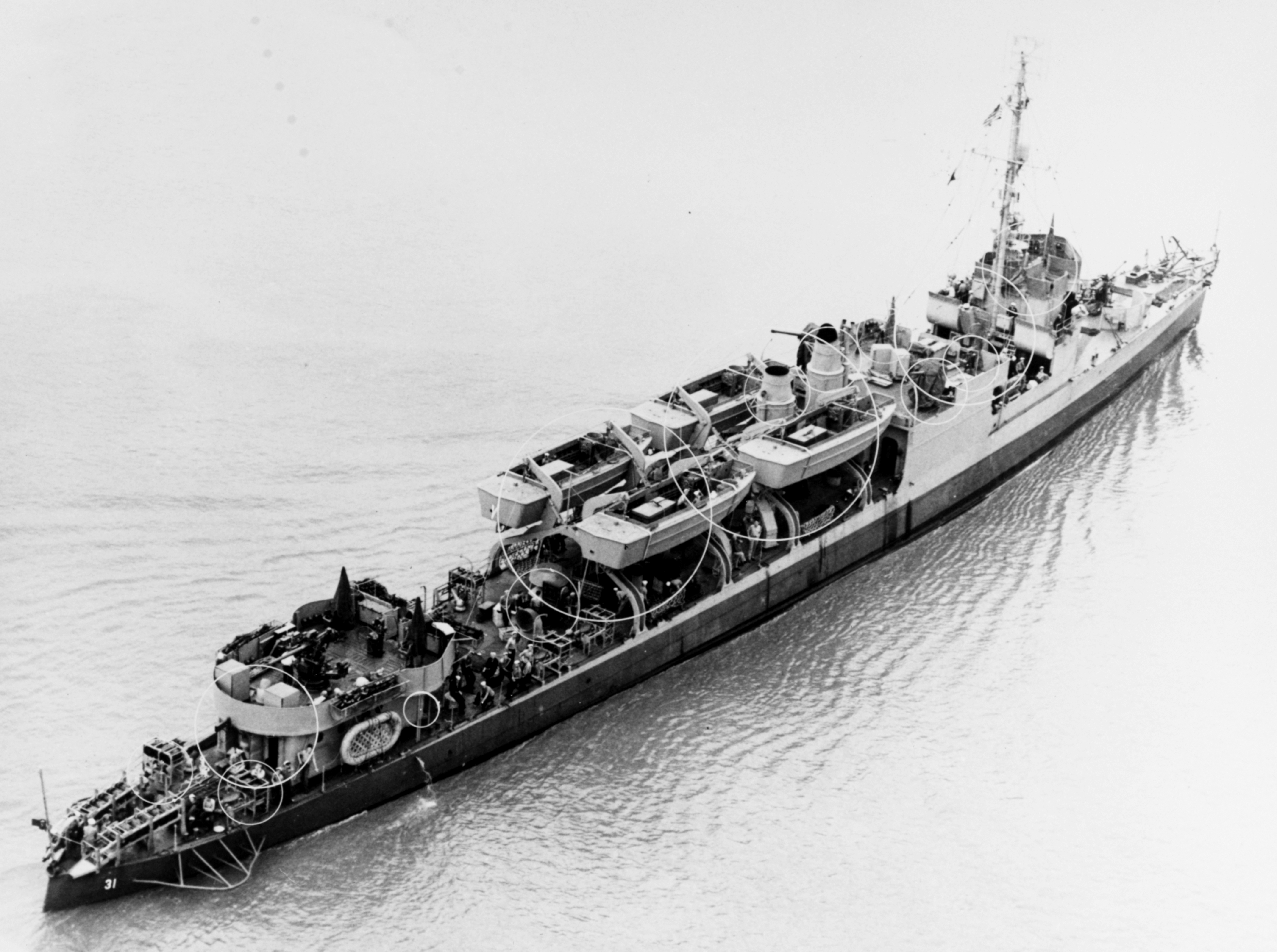 The U.S. Navy high speed transport USS Clemson (APD-31) off the Charleston Navy Yard, South Carolina (USA), on 21 April 1944, following conversion from a destroyer (DD-186, ex-AVD-4). The circles mark recent alterations.